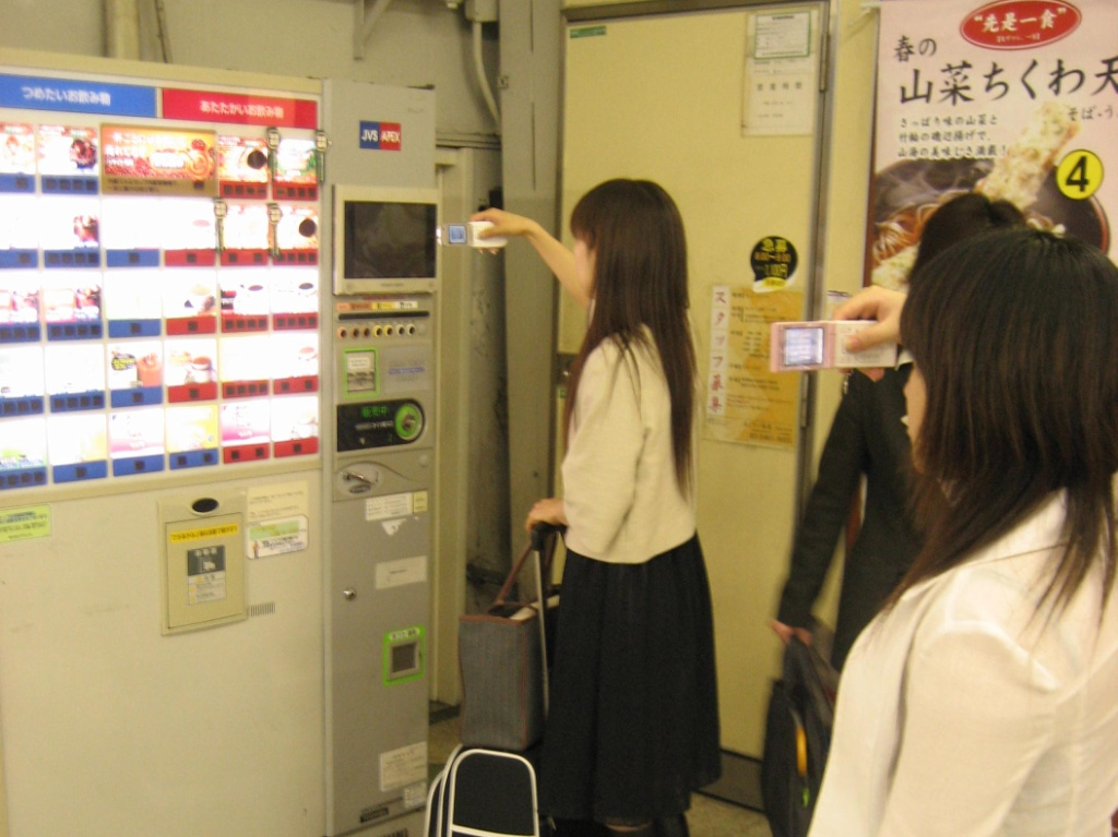 Shibuya station. A young woman buys things with her mobile phone